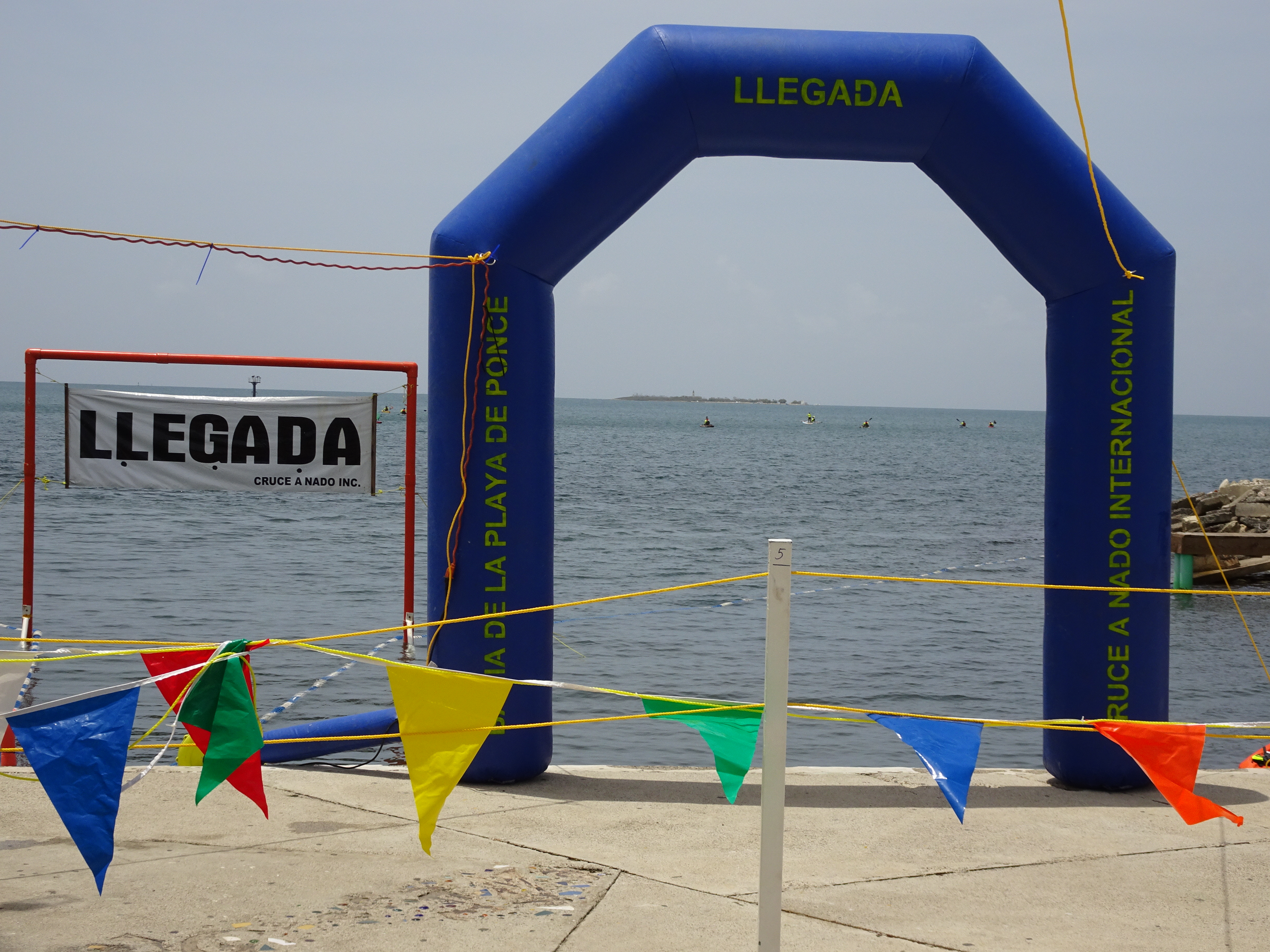 Línea meta y portal del Cruce a Nado Internacional (con Isla Cardona al fondo), Bahía de Ponce, Bo. Playa, Ponce, Puerto Rico, mirando al sur (DSC01835)